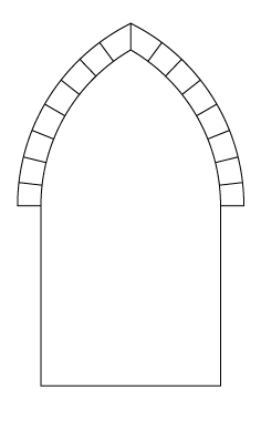 pointed arch